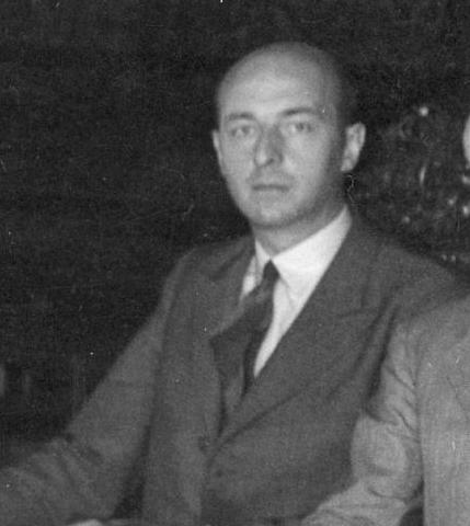 Sicco Mansholt